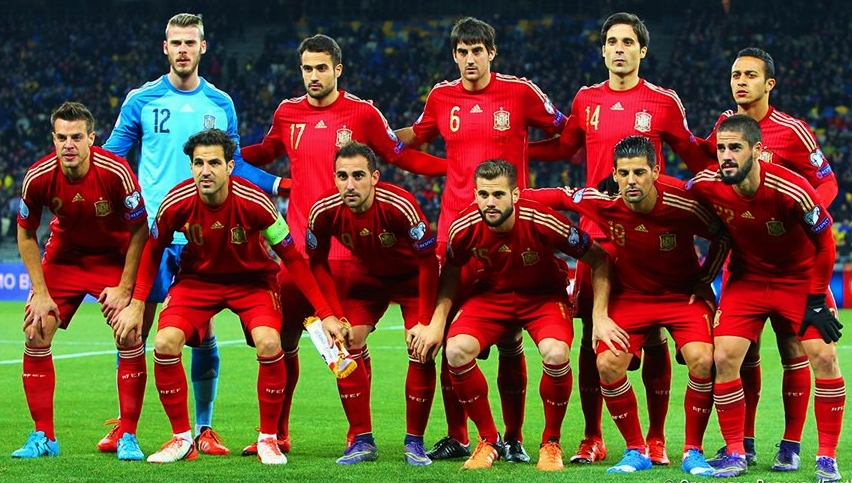 Spain national football team 12.10.2015